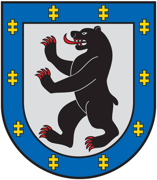 Coat of arms of Šiauliai County, Lithuania